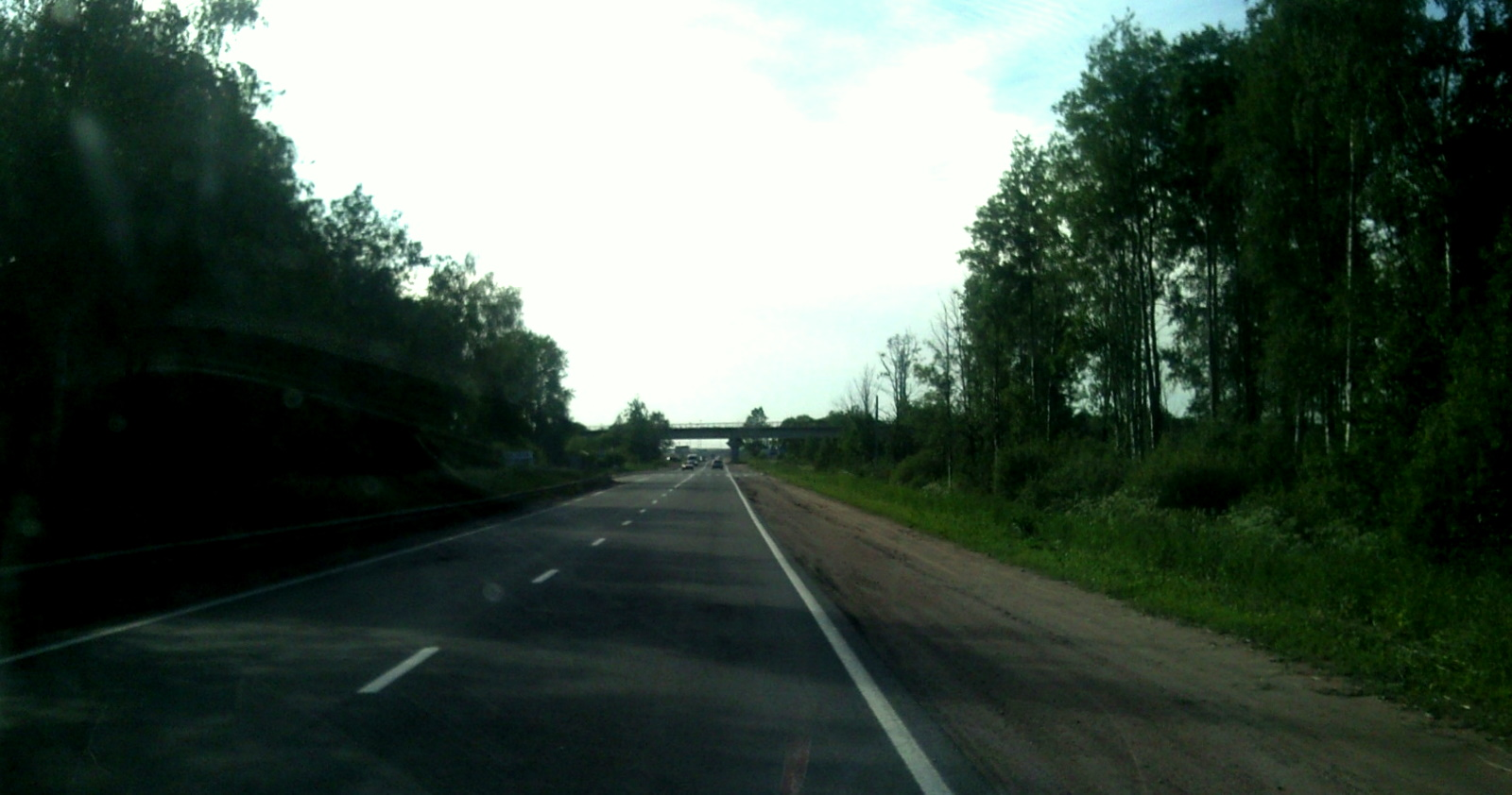 Volkhonskoye Shosse in Saint Petersburg, Russia